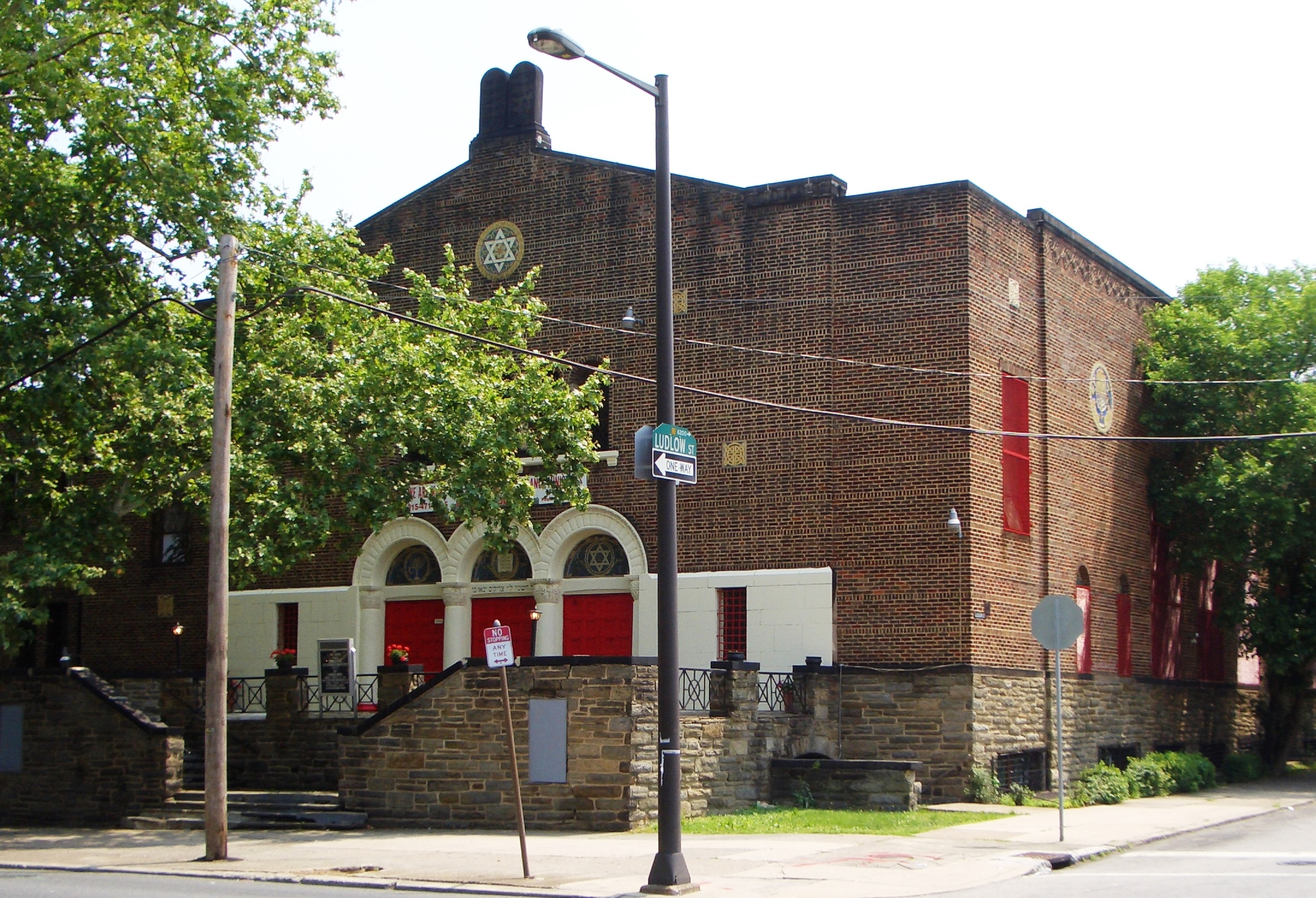 Picture of City of Conquerors Church, Philadelphia. Picture of City of Conquerors Church, Philadelphia from the south west corner.